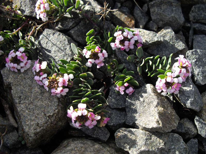 Aethionema saxatile